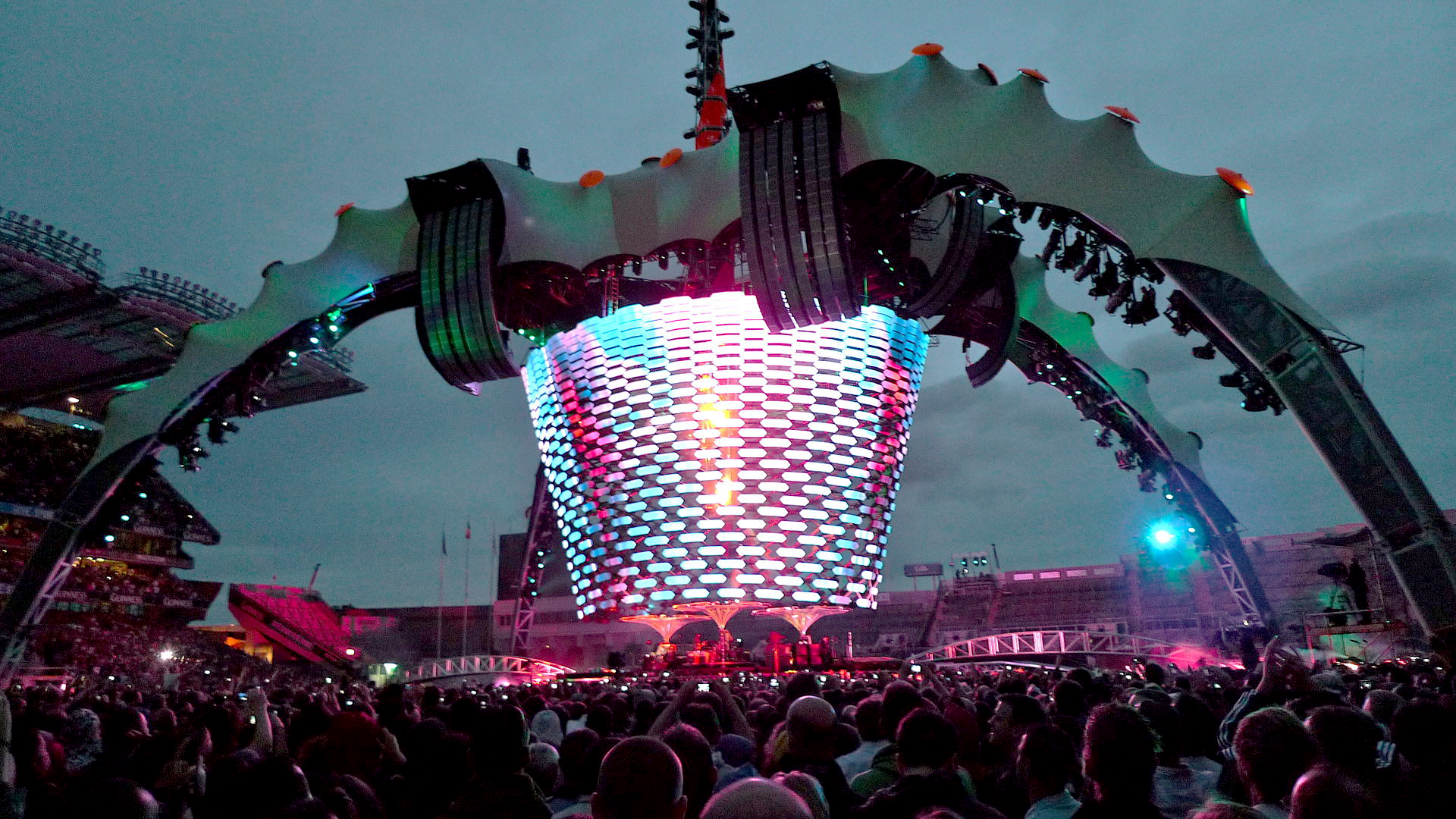 U2 perform on their U2 360 Tour on Saturday 25 July 2009 in Croke Park, Ireland